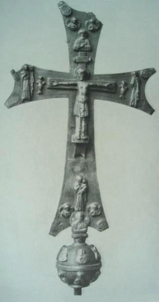 Cross of the Georgian prince kouropalates David III of Tao